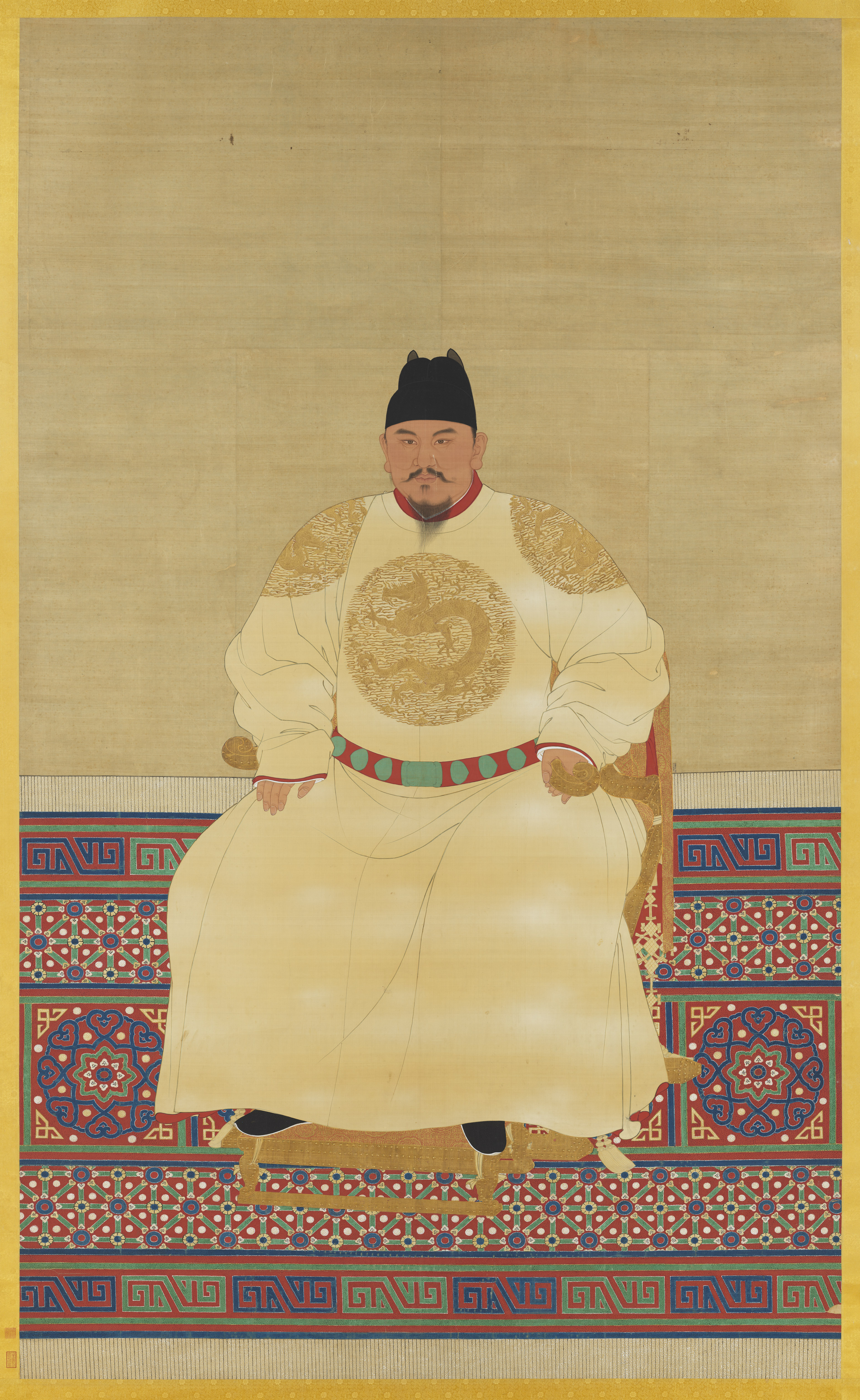 This painting depicts Zhu Yuanzhang (朱元璋), Emperor Taizu of the Ming dynasty (明太祖), who reigned from 1368 to 1398. Hongwu (洪武) was the title of his reign period.